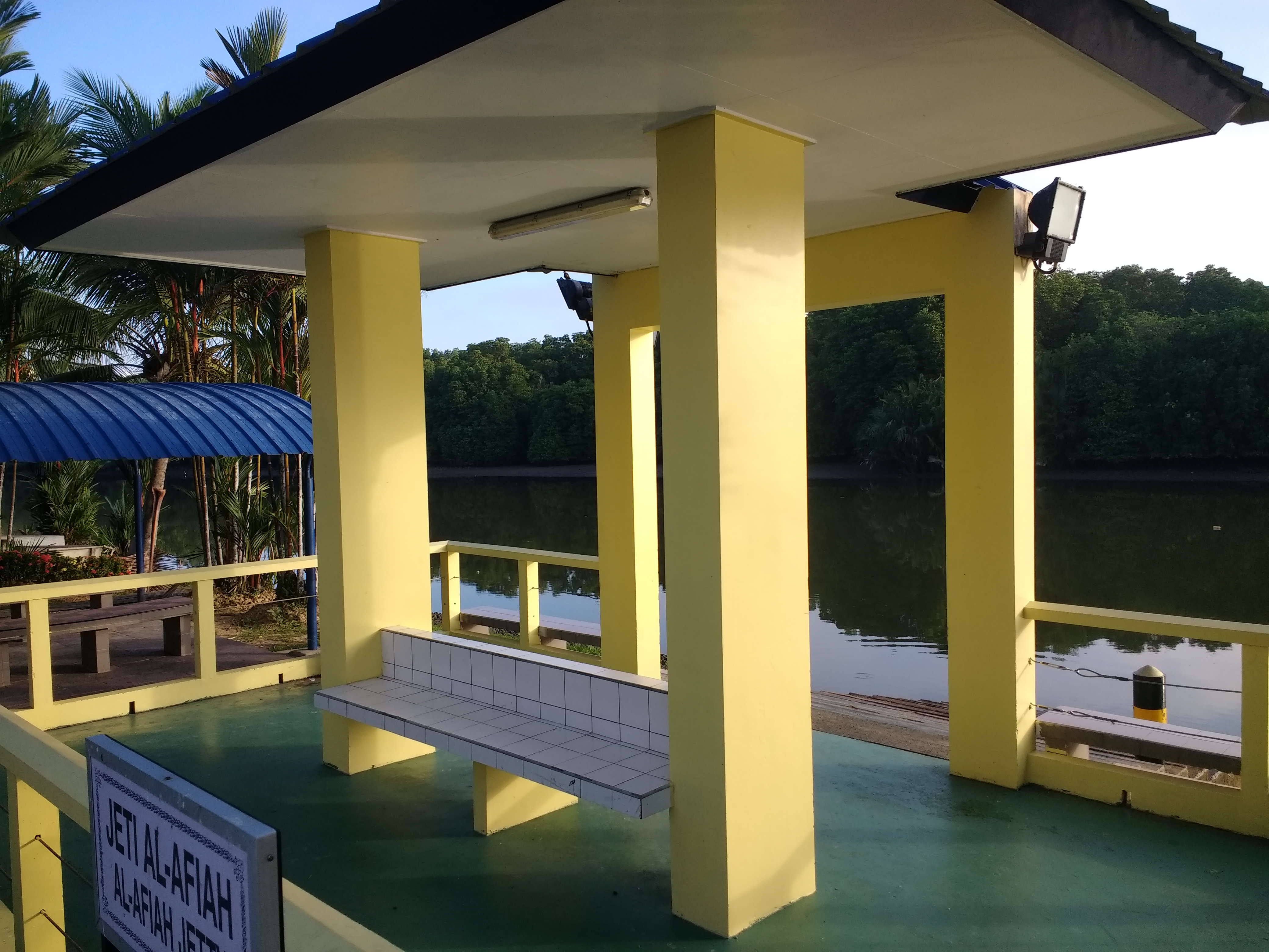 Al-Afiah Jetty (Jeti Al-Afiah) on the Kedayan River in Kiulap, Bandar Seri Begawan, Brunei.